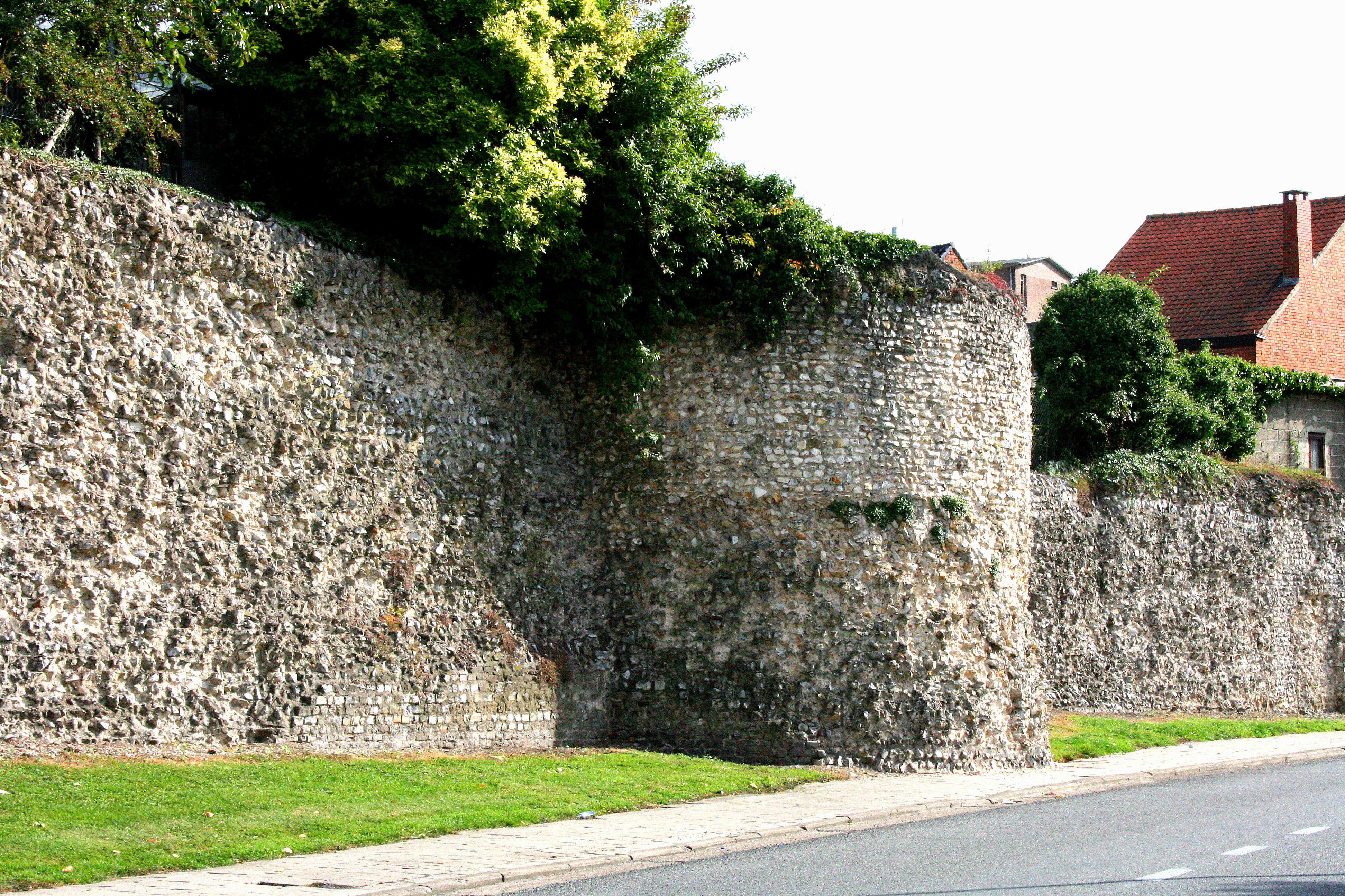 Tongeren, Limbourg province, Roman city wall